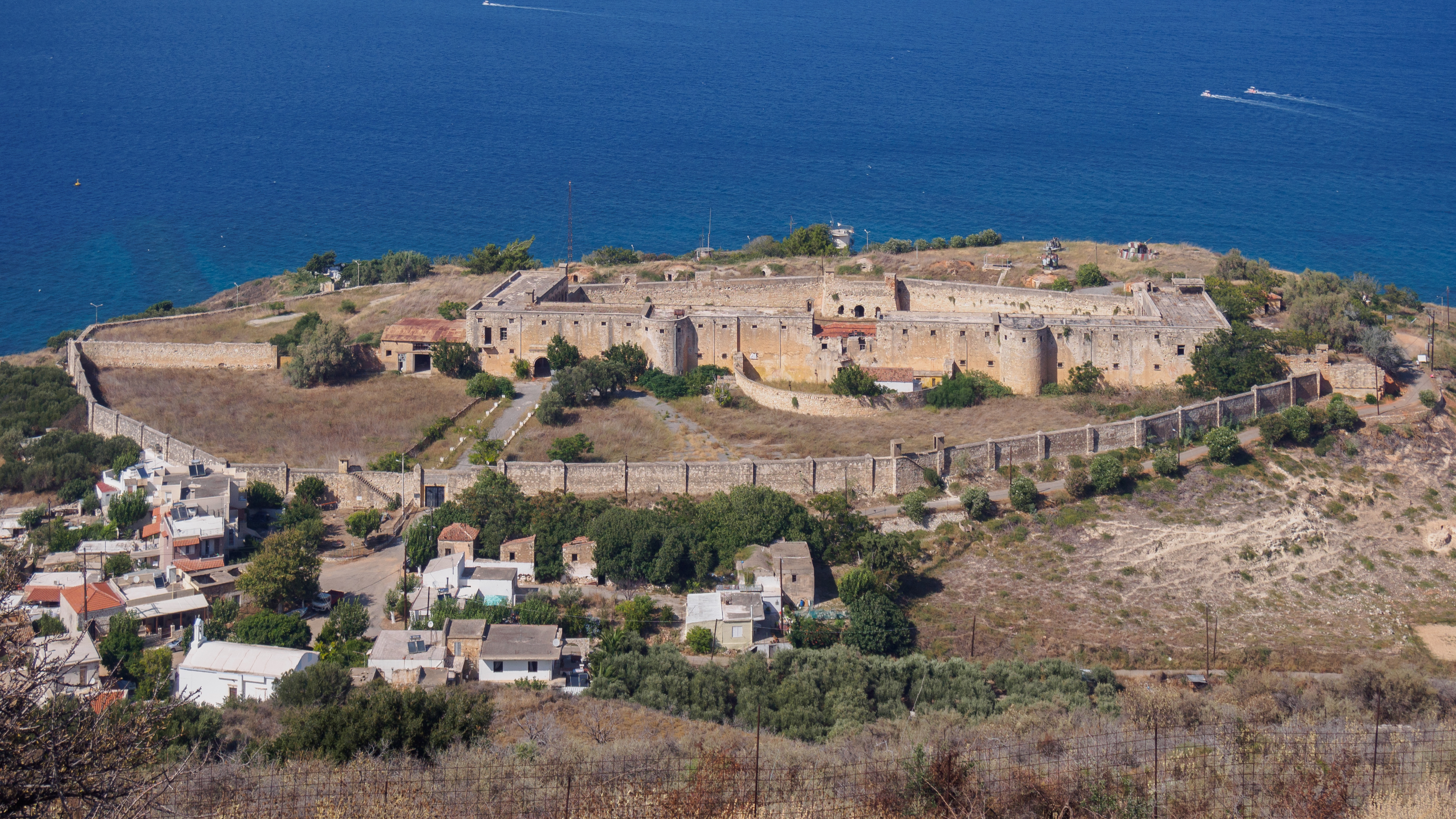 View of Itzedin fortress from Aptera fortress«Φρούριο Ιτζεδίν»